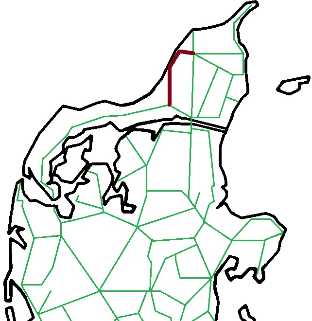 Map of railways in Northern Jutland in Denmark with the private railway Hjørring-Løkken-Aabybro Jernbane in brown.